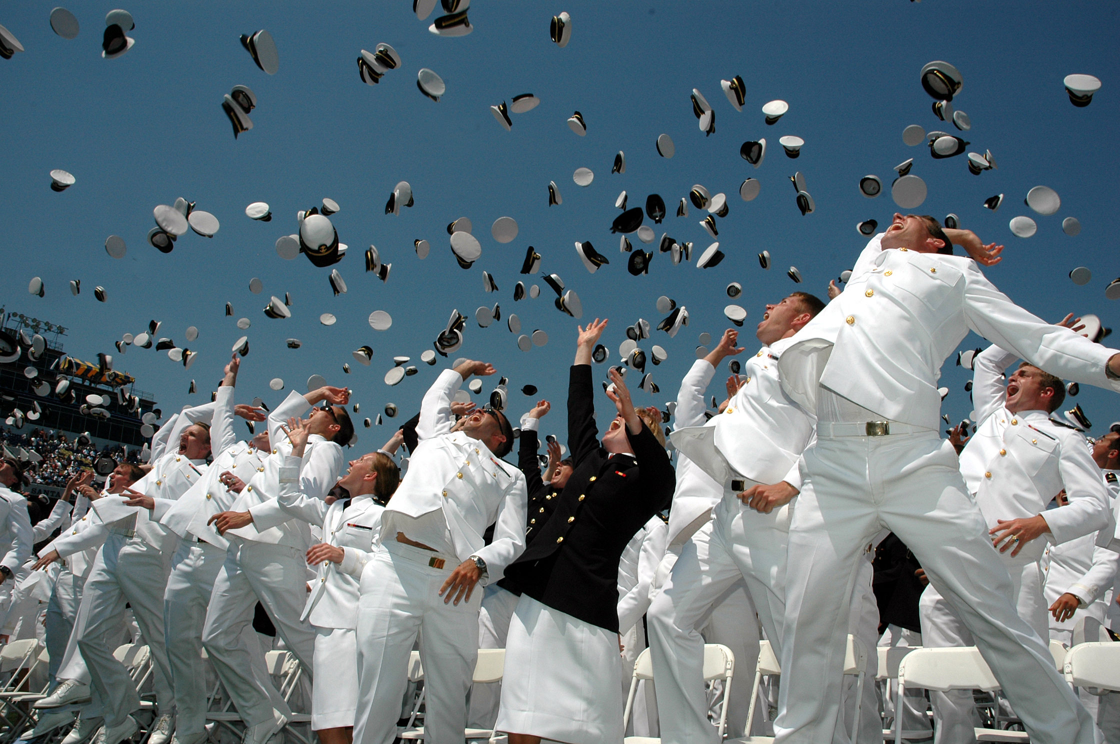 Naval Academy Class of 2007 graduates tossing their hats